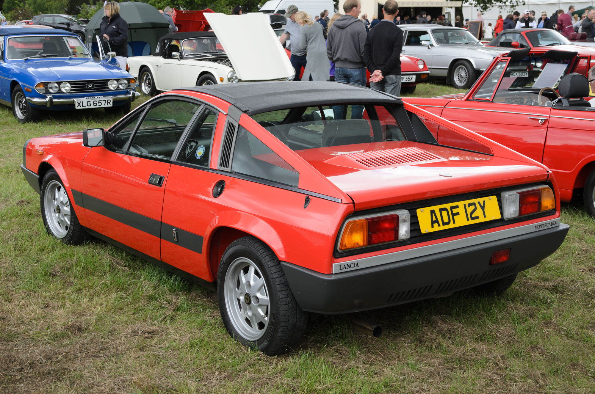 Trentham Gardens Classic Car Show 21/06/2015